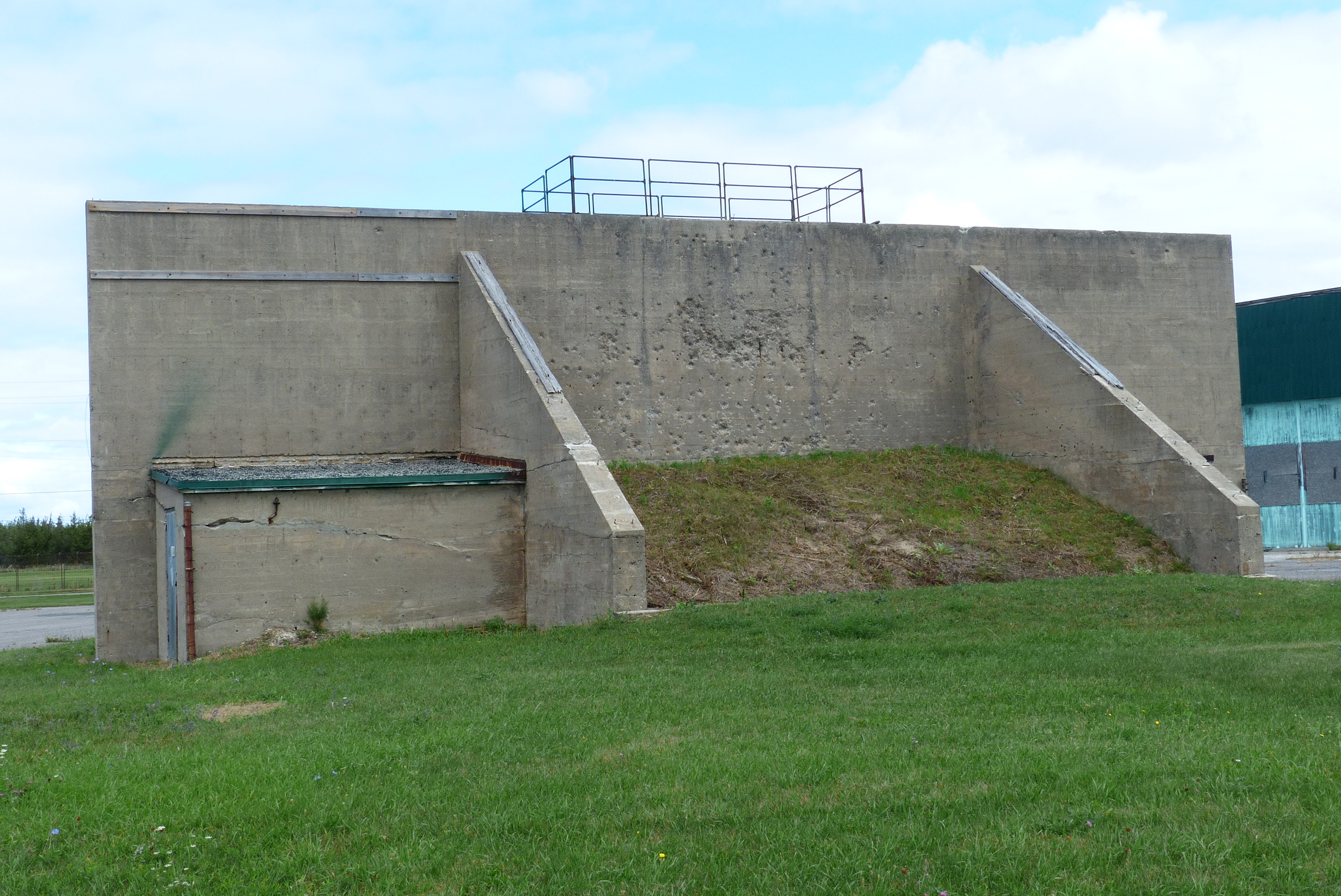 The 25 yard range backstop at the Picton Airport, site of the former Royal Air Force No. 31 Bombing and Gunnery School and Royal Canadian Air Force Station Picton. Photo taken with permission of Loch-Sloy Holdings in August 2015.